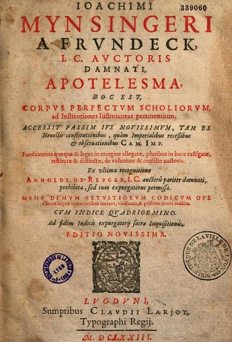 Apotelesma, hoc est Corpus perfectum ... 1673